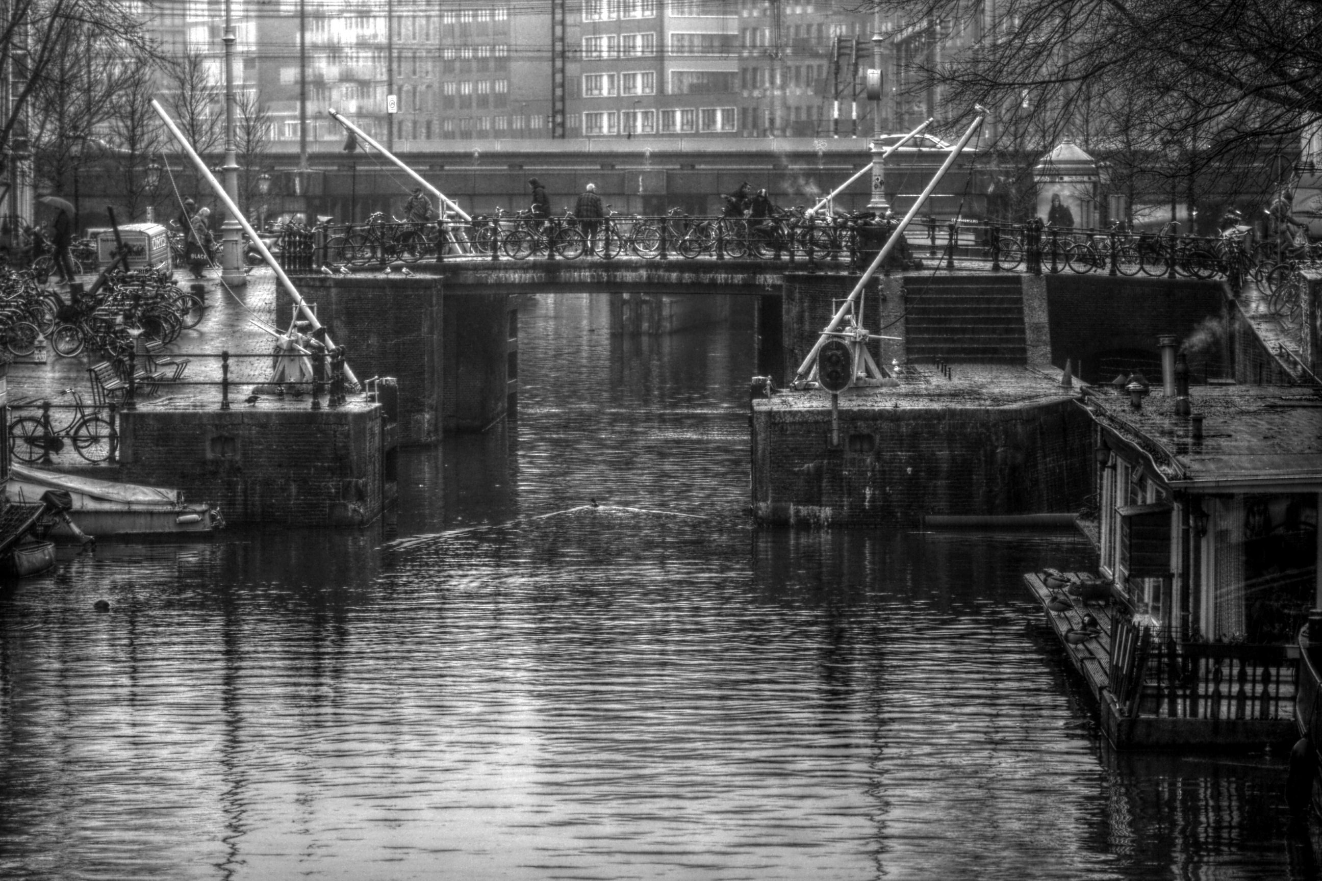 The Eenhoornsluis bridge over the Korte Prinsengracht in Amsterdam. December 2012